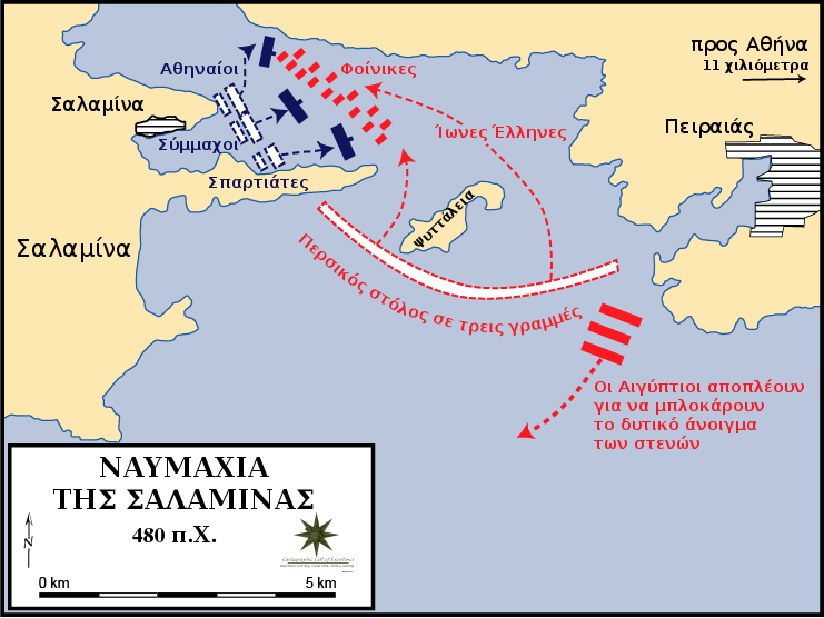 Greek version of the map for the Naval Battle of Salamis.